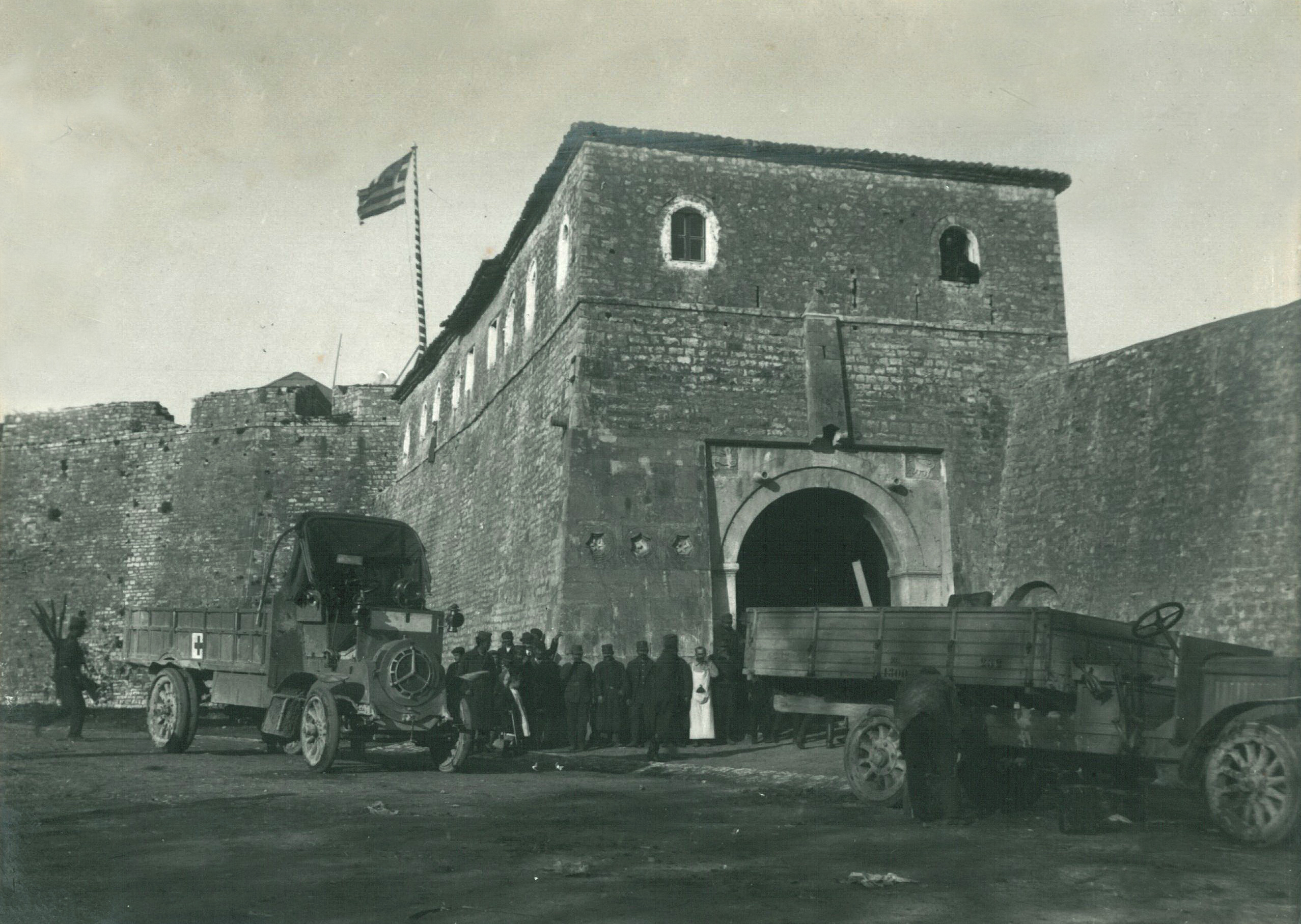 The entrance gate of St. Andrew's castle, Preveza, Greece. Photograph of 1912